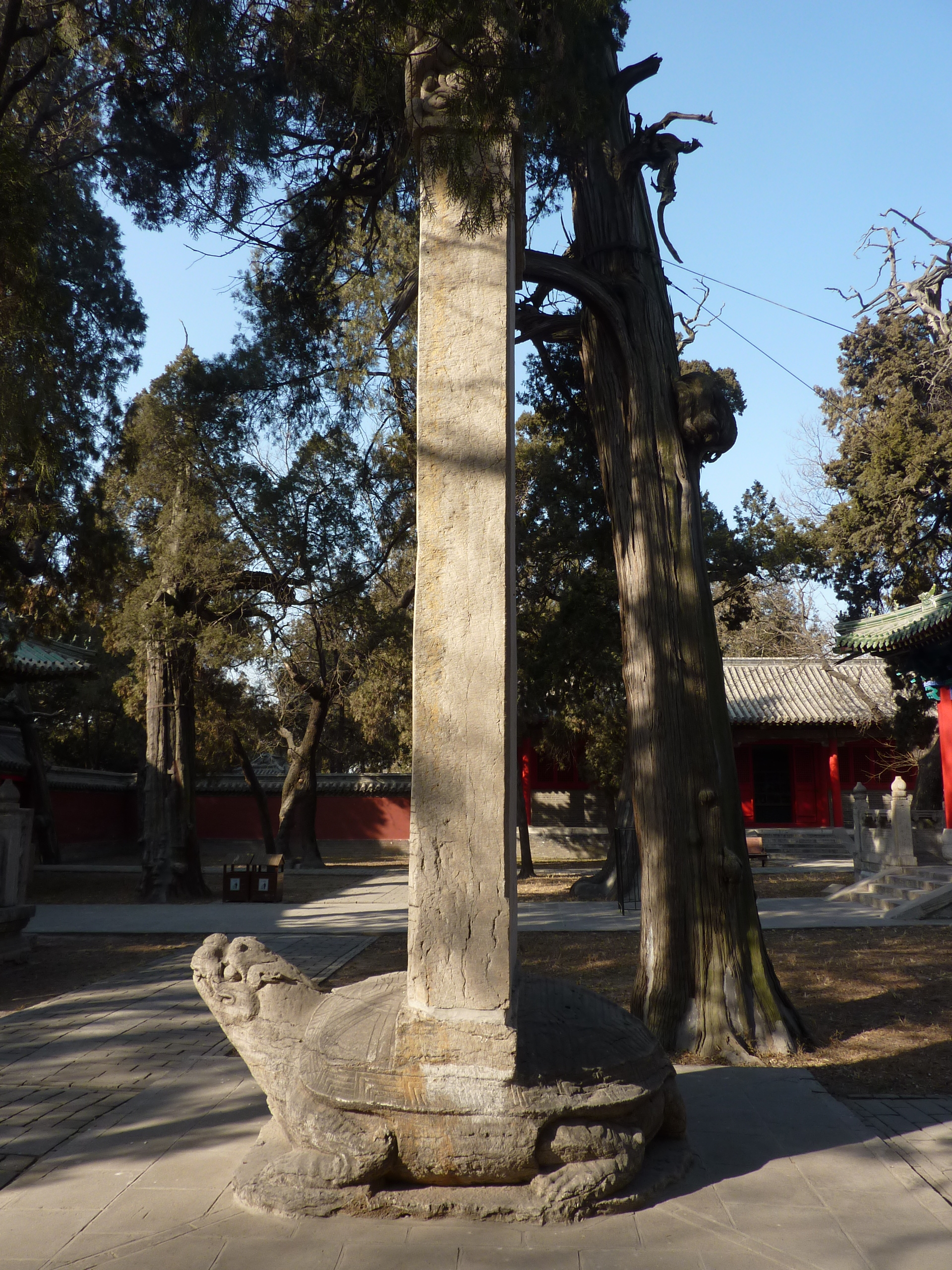 Yan Miao: the northern courtyard. In its eastern part, the turtle-born Yan Miao Renovation Stele dated Year 9 of Zhizheng era (AD 1349) is located.